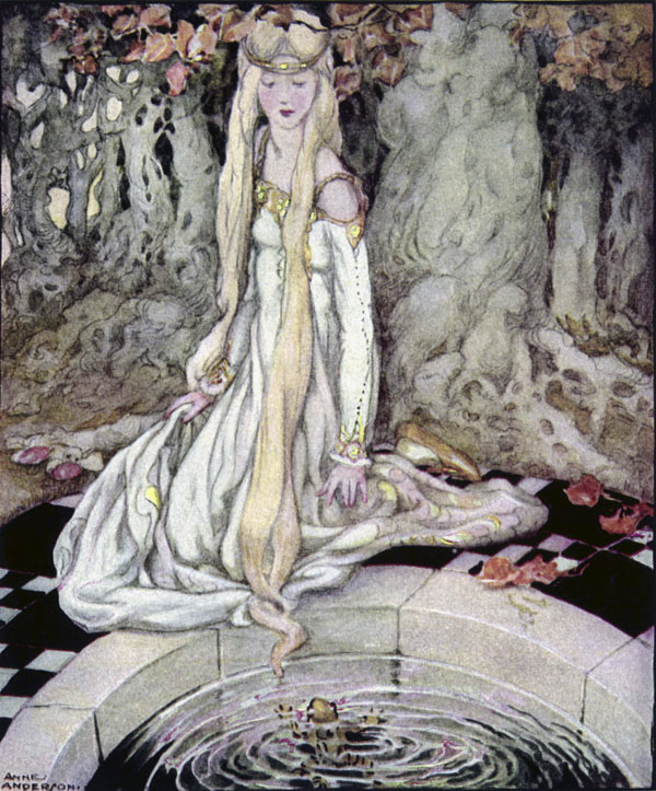 Old, Old Fairy Tales: "The Frog Prince" by Anne Anderson. A voice asked what was the matter - it was a frog...